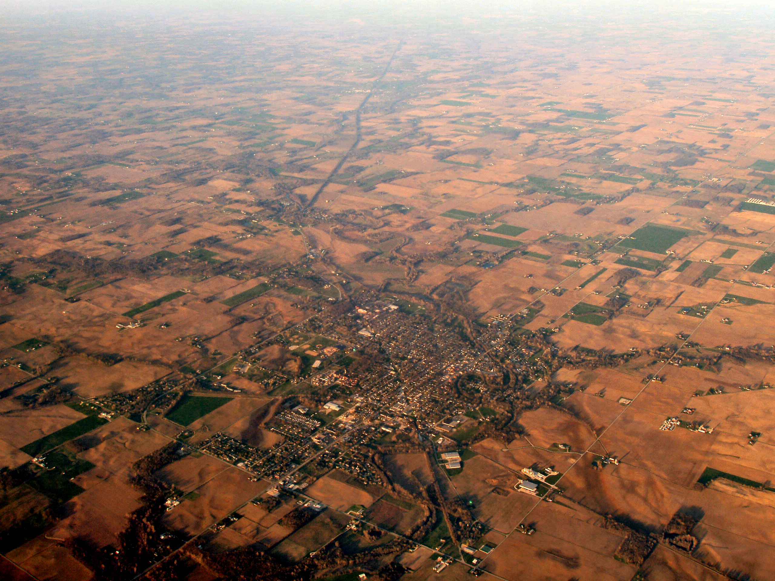 North Manchester, Indiana from the air, looking northeast. Photo by Derek Jensen (Tysto), 2005-April-14